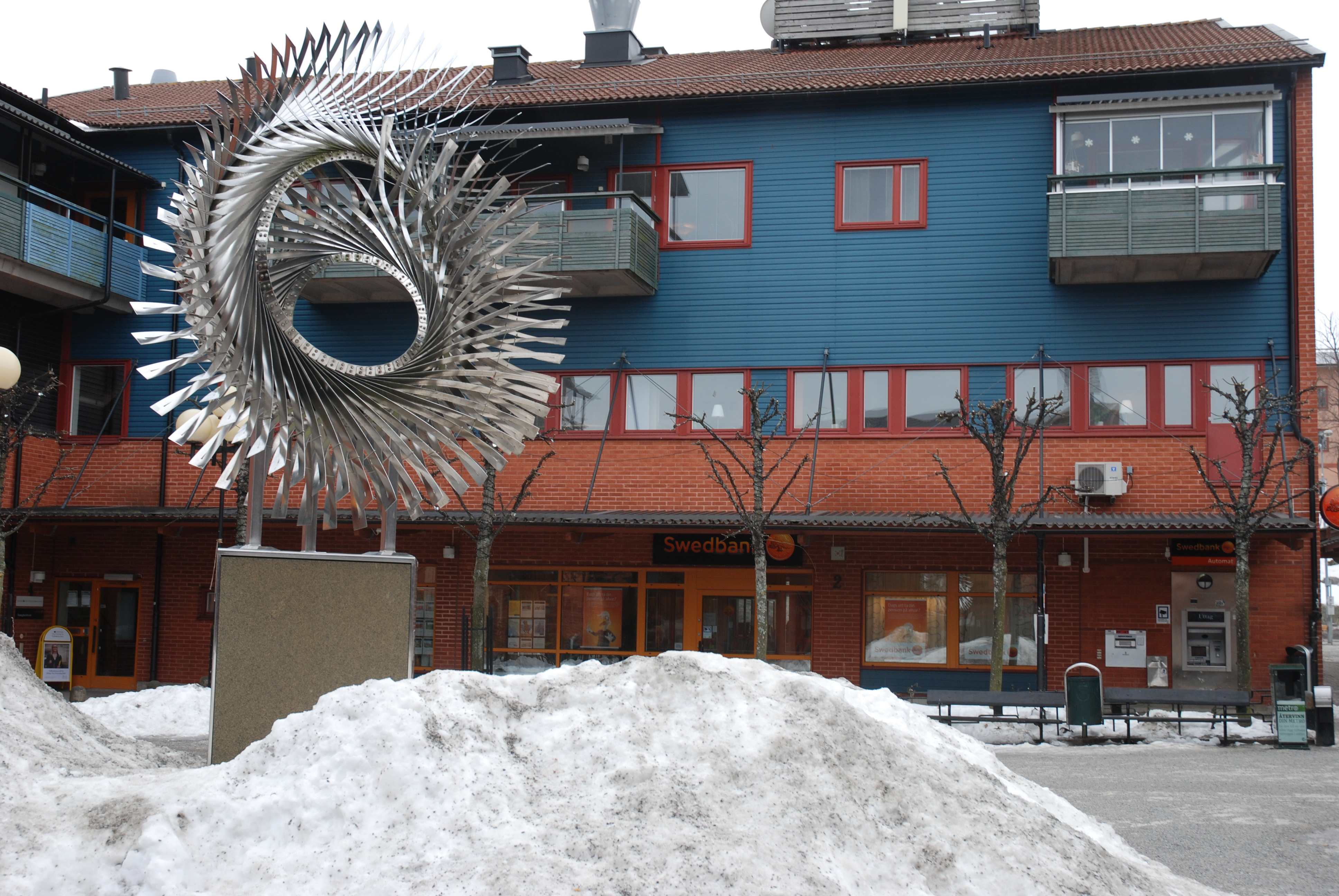 Turkisk-Swedish sculptor Ilhan Koman´s Vattenvirvel (The Water Swirl) in Ekerö town square, Sweden